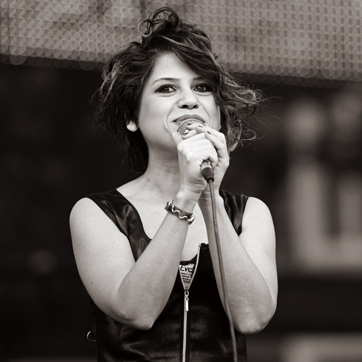 Aydilge Van İçin Rock